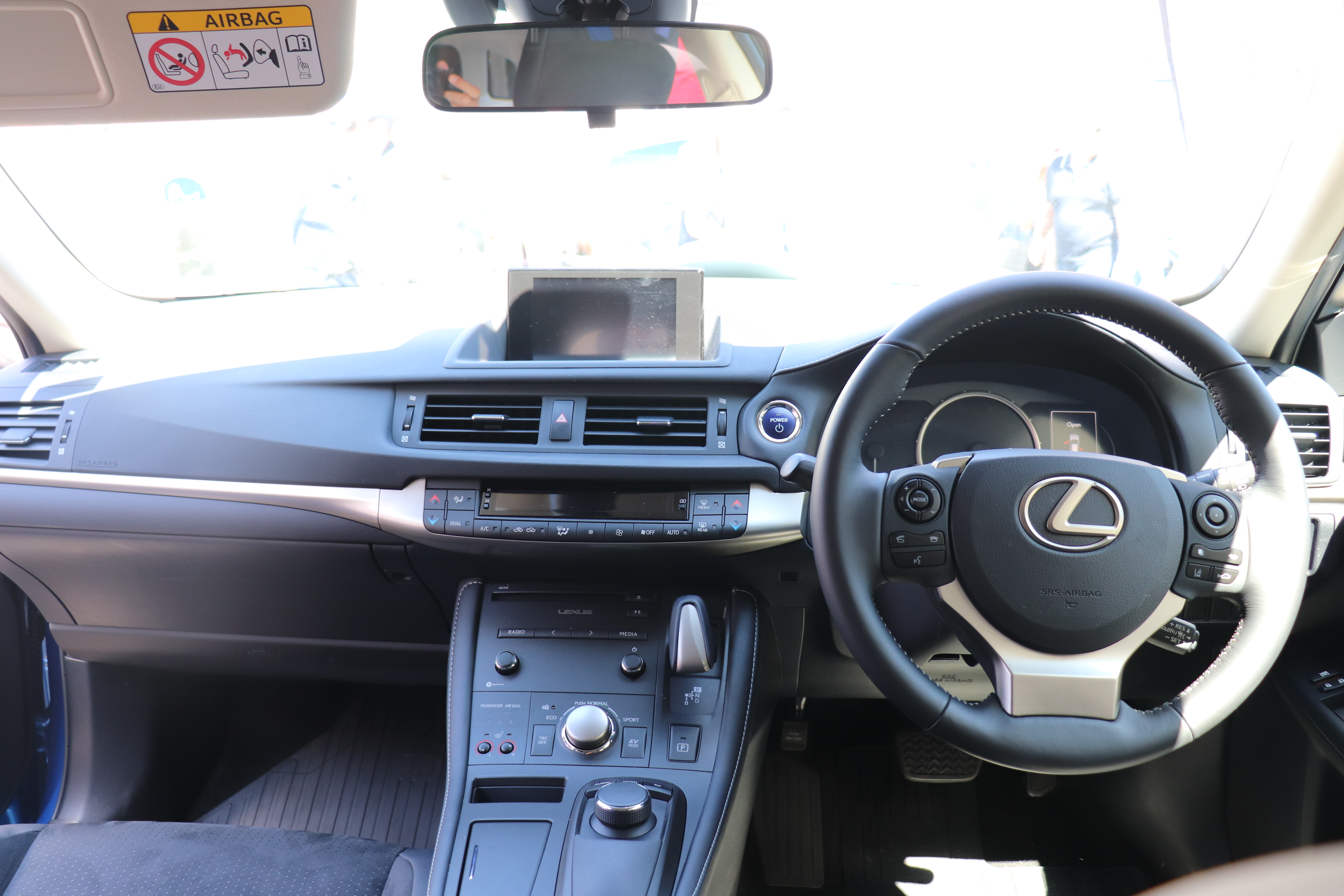 2018 Lexus CT200h 1.8 Interior Taken at the Stratford Festival of Motoring 2018